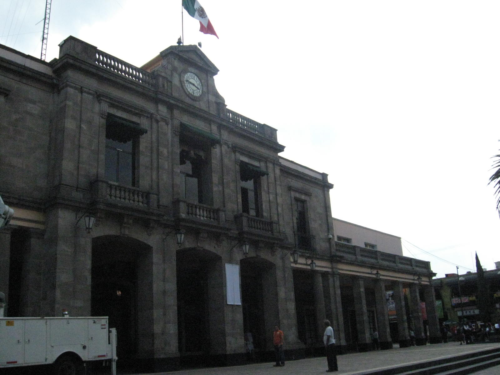 The Edificio Delegacional or Borough Building located at the center of Tlalpan borough off the Plaza Constitucional in Mexico City